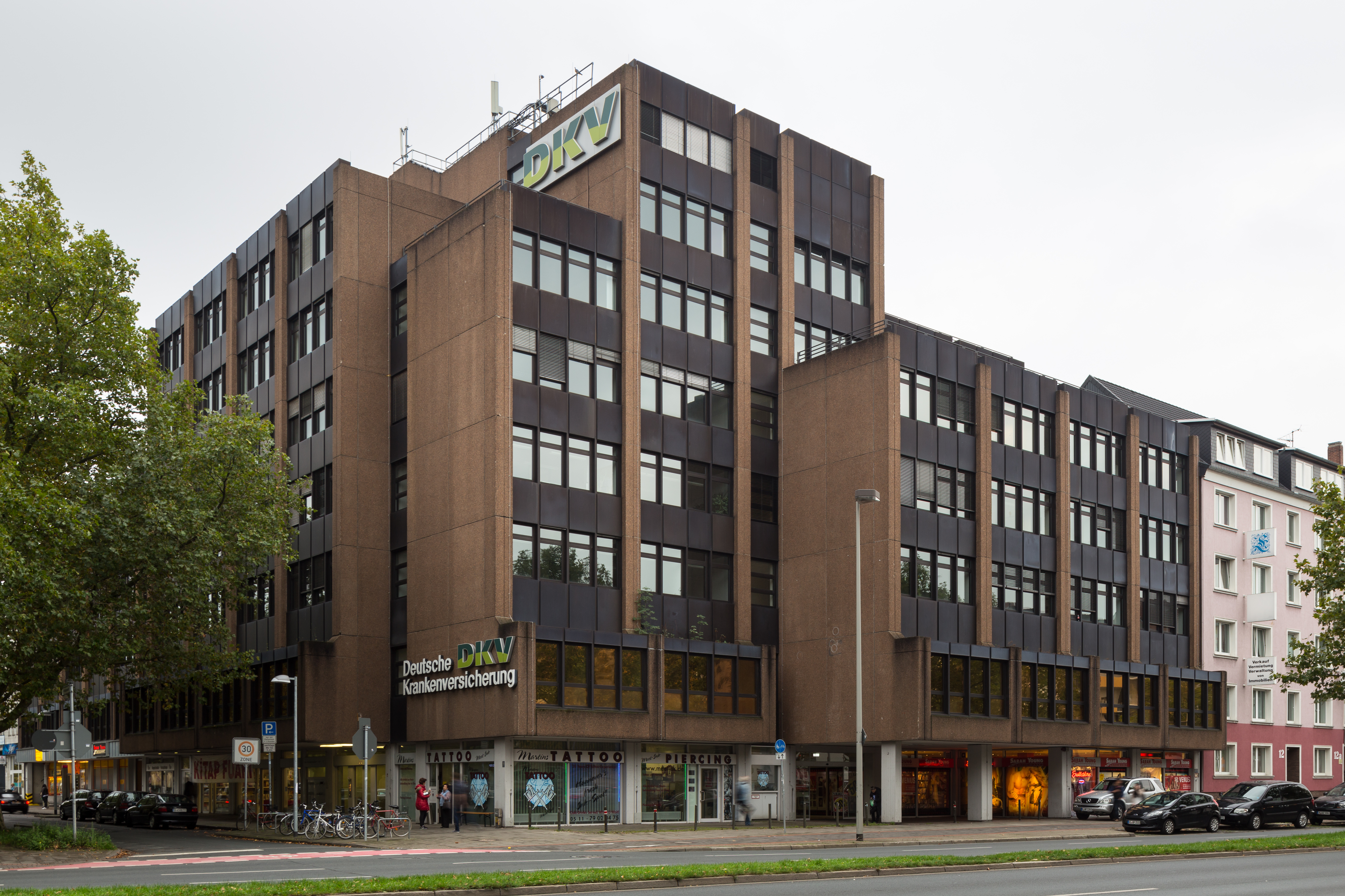 Office building of DKV insurance company located at Schlosswender Strasse in Mitte quarter of Hannover, Germany.